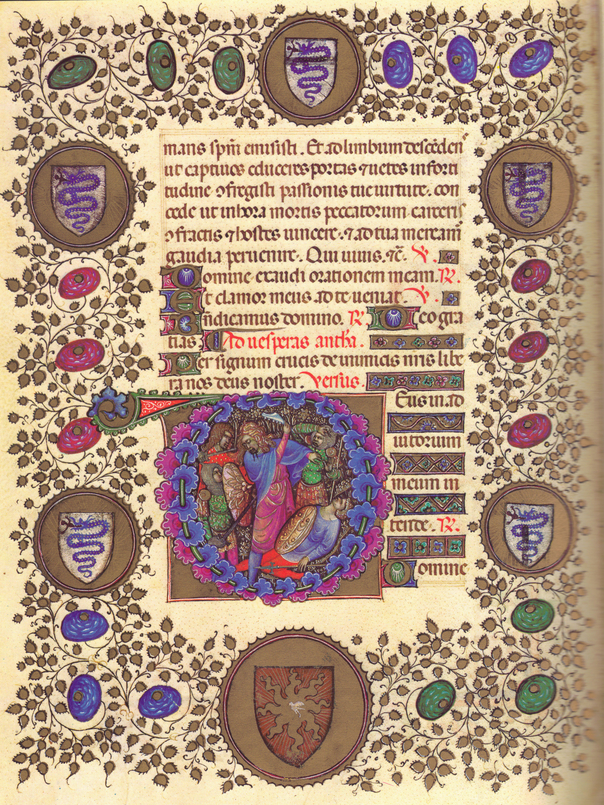 Samson